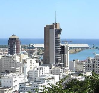 The Bank of Mauritius (in the centre) is the tallest building in Mauritius.